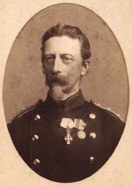 Theodor Bernhard Sick (1827-1893), Danish army officer and composer